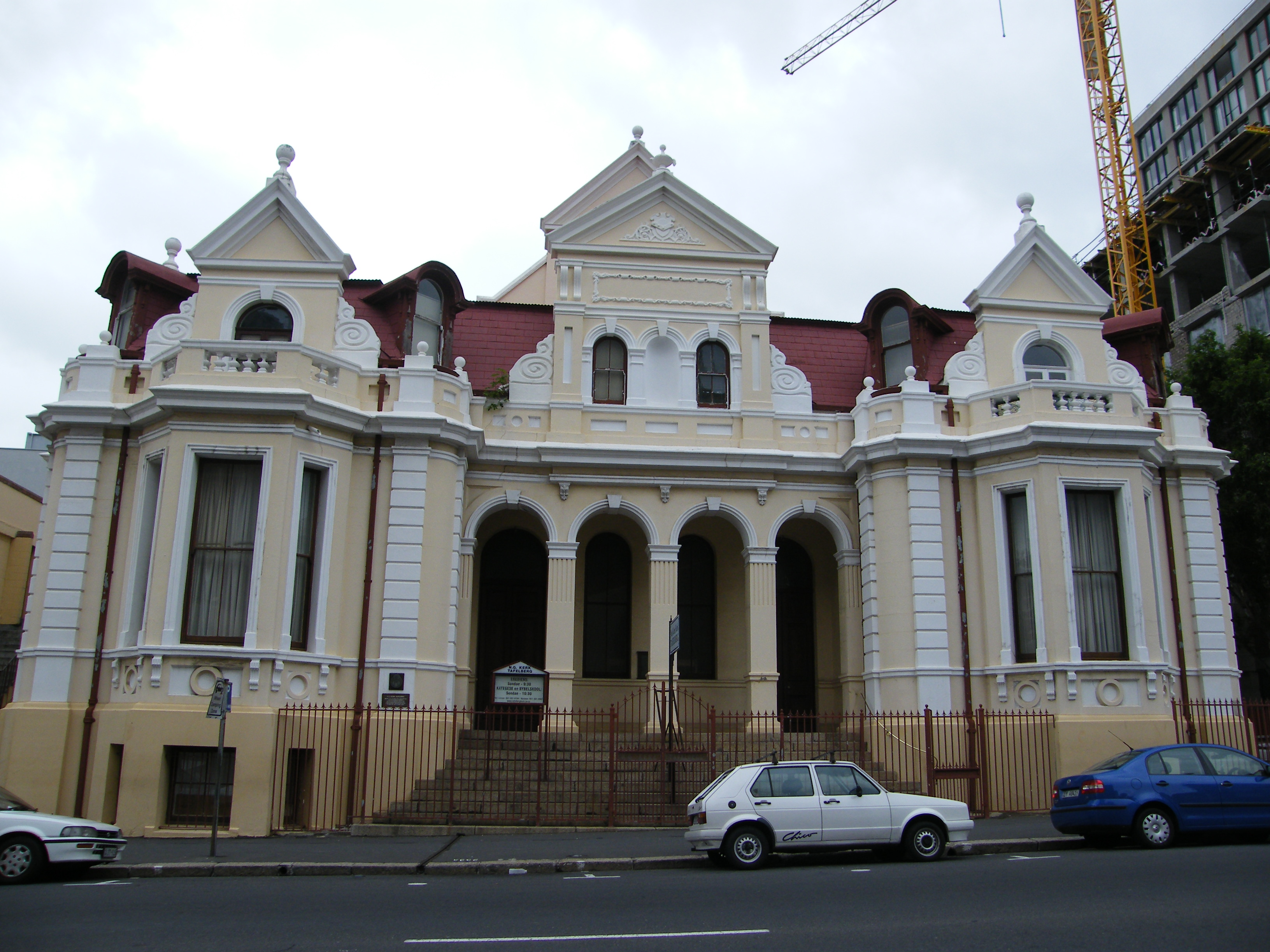 Tafelberg Dutch Reformed Church This media shows a South African Protected Site with SAHRA file reference 9/2/018/0102.